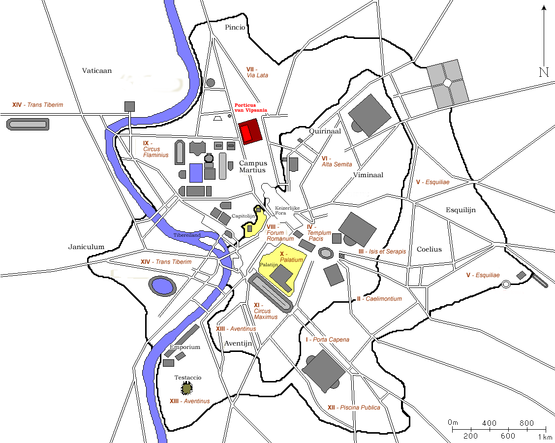 Campus Aggrippae and the Porticus of Vipsania on a map of ancient Rome around 300 AD